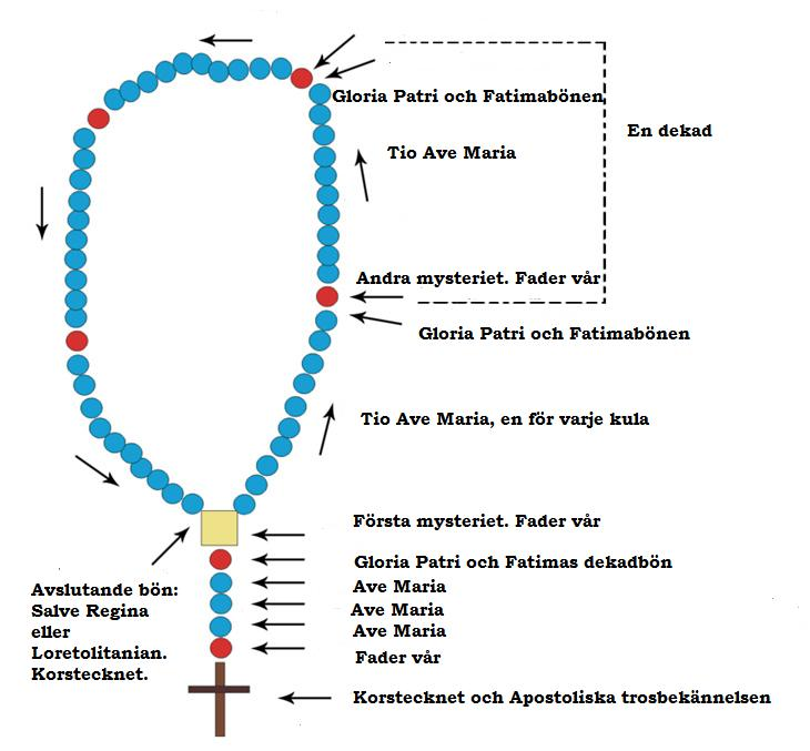 Translation to swedish of File:Gospina Krunica.jpg